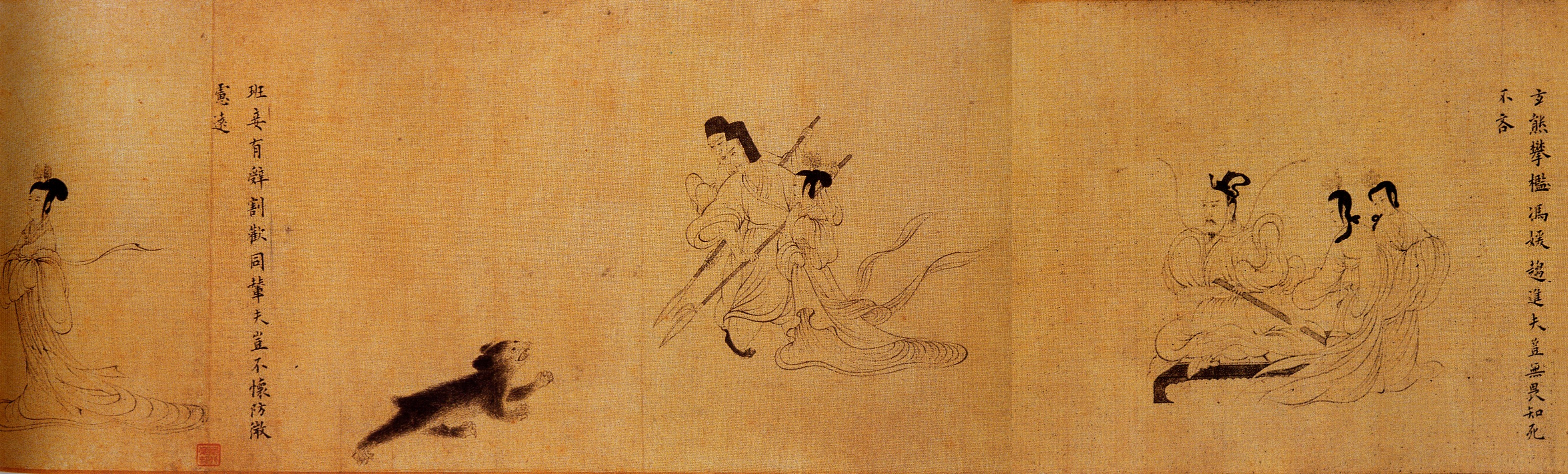 Scene 4 (Lady Feng and the bear) of the Song Dynasty Palace Museum copy of the "Admonitions Scroll", attributed to Gu Kaizhi